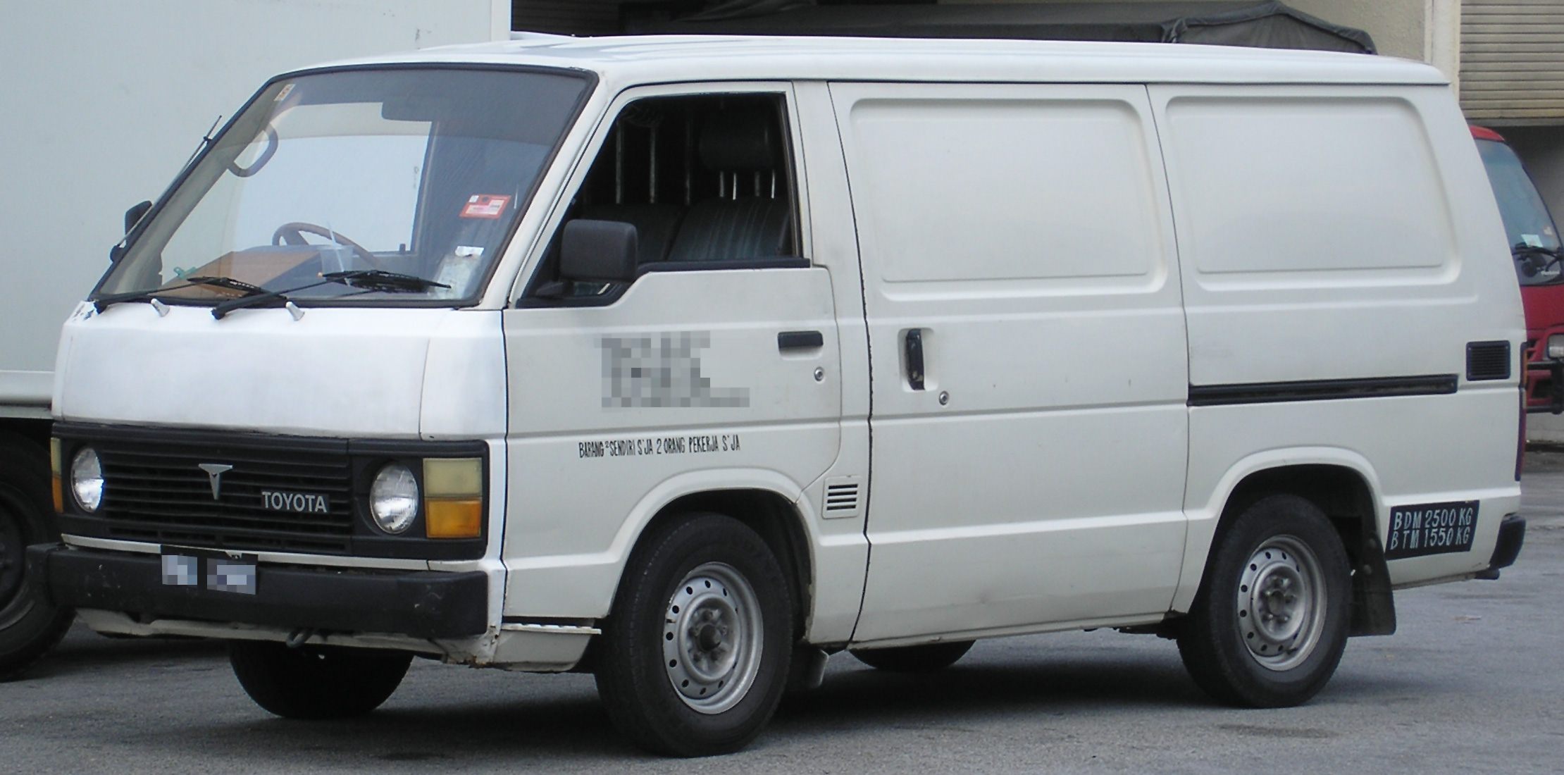 Front quarter view of a third generation Toyota Hiace in Serdang, Selangor, Malaysia.